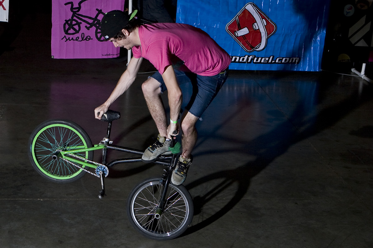 Flatland Winner